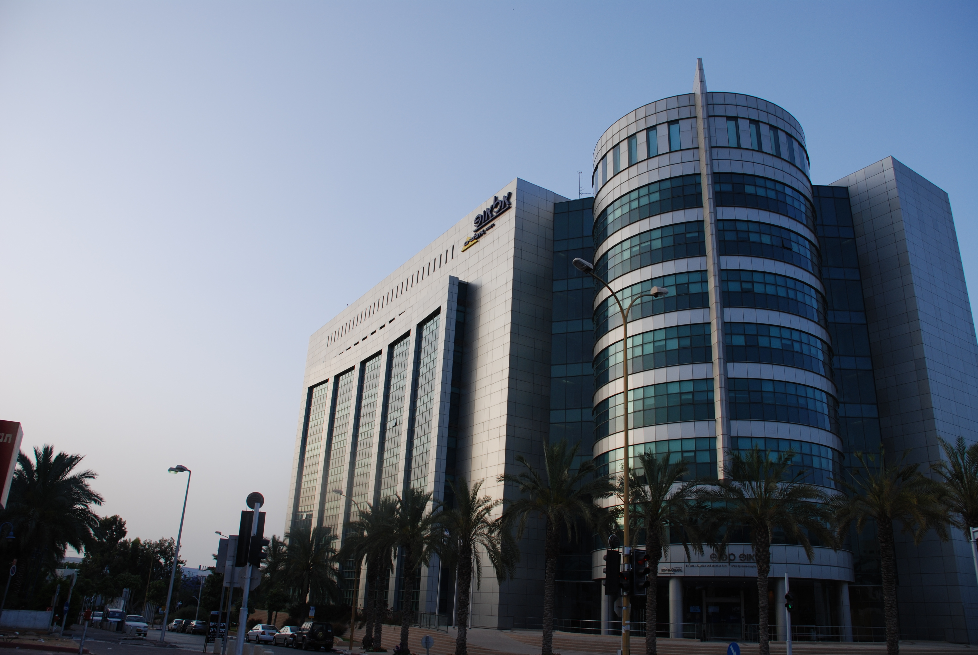 A building in the Rehovot Science Park